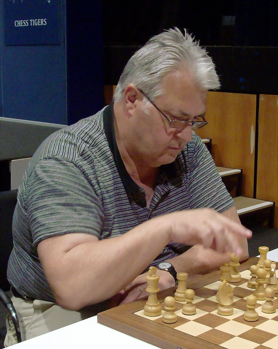 Klaus Klundt, German chess master